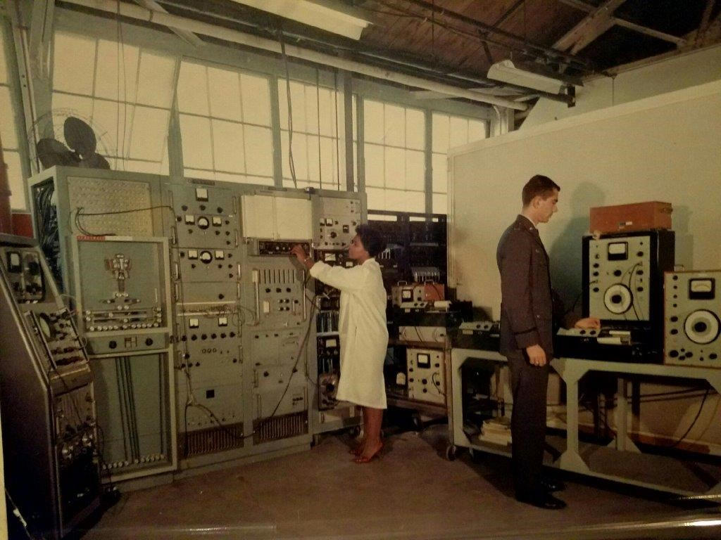 Phyllis Bolds, a researcher at the Radar Branch, Air Research Lab, analyzes radar signal data on fighter planes as it travels through a fuselage in 1955.